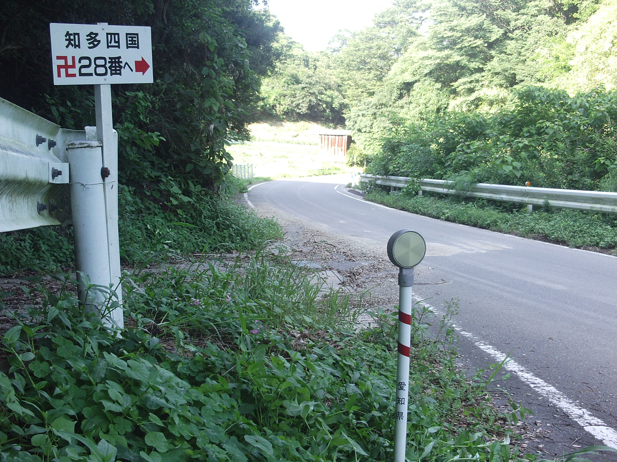 Aichi prefectural road No.278 in Umasaka, Toyooka, Mihama-cho, Chita-gun, Aichi. This is the old prefectural road.